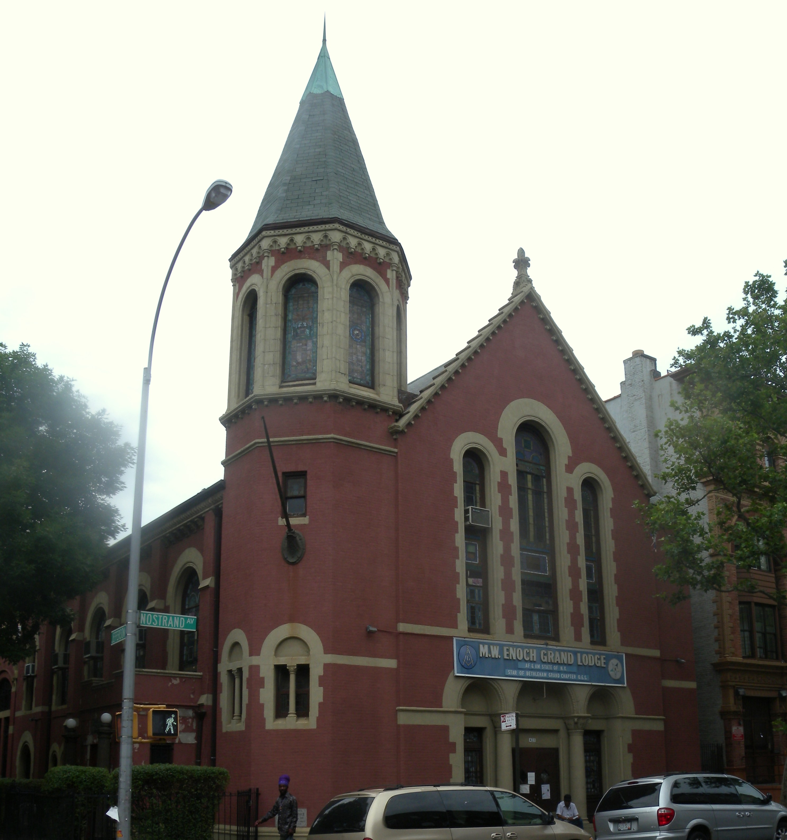 Looking southeast from Jefferson Avenue across Nostrand Avenue at Enoch Grand Lodge, former Reformed Episcopal Church of the Reconciliation (1890), on a cloudy day.